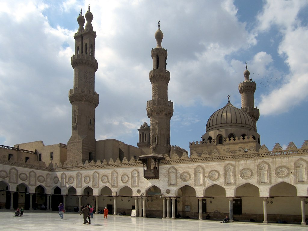 The second oldest university in the world once encompassed the Fatumid-era Al-Azhar Mosque (970 AD) in Cairo, Egypt. The mosque's sheikh is still Egypt's leading theological authority.